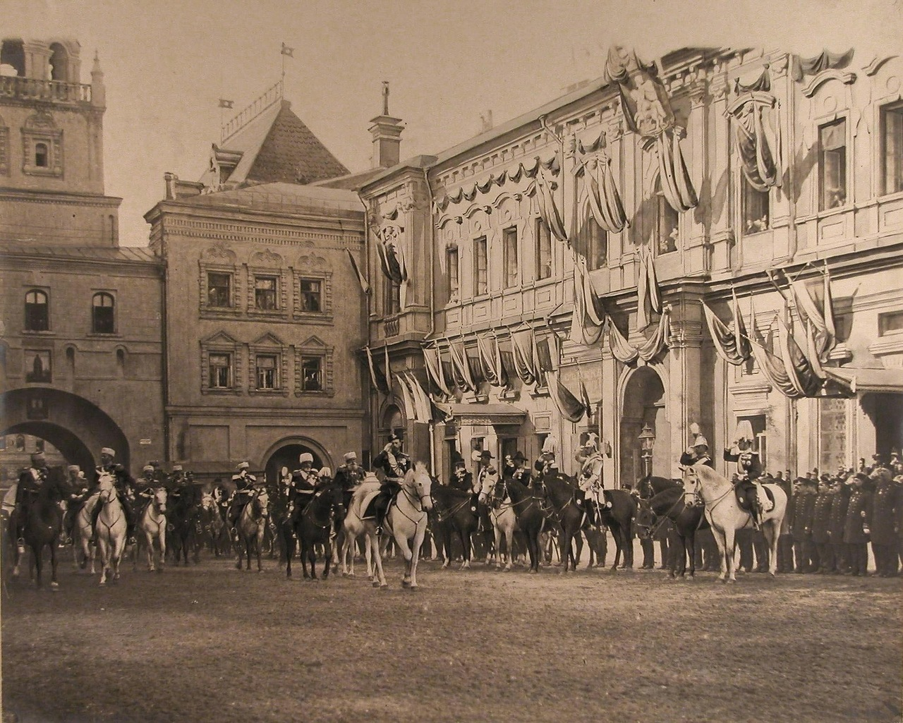 26 May 1896, Nicholas' formal coronation as Tsar